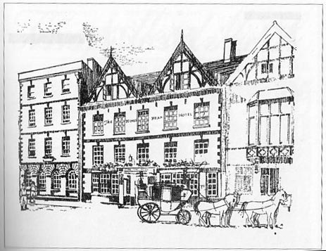 C16 townhouse used as Judges' Lodgings in C19